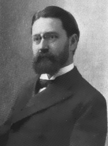 1910 portrait of Edwin Robert Anderson Seligman.